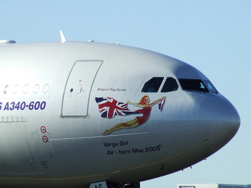 Virgin Atlantic A340-600 G-VGAS nose art, Varga Girl.